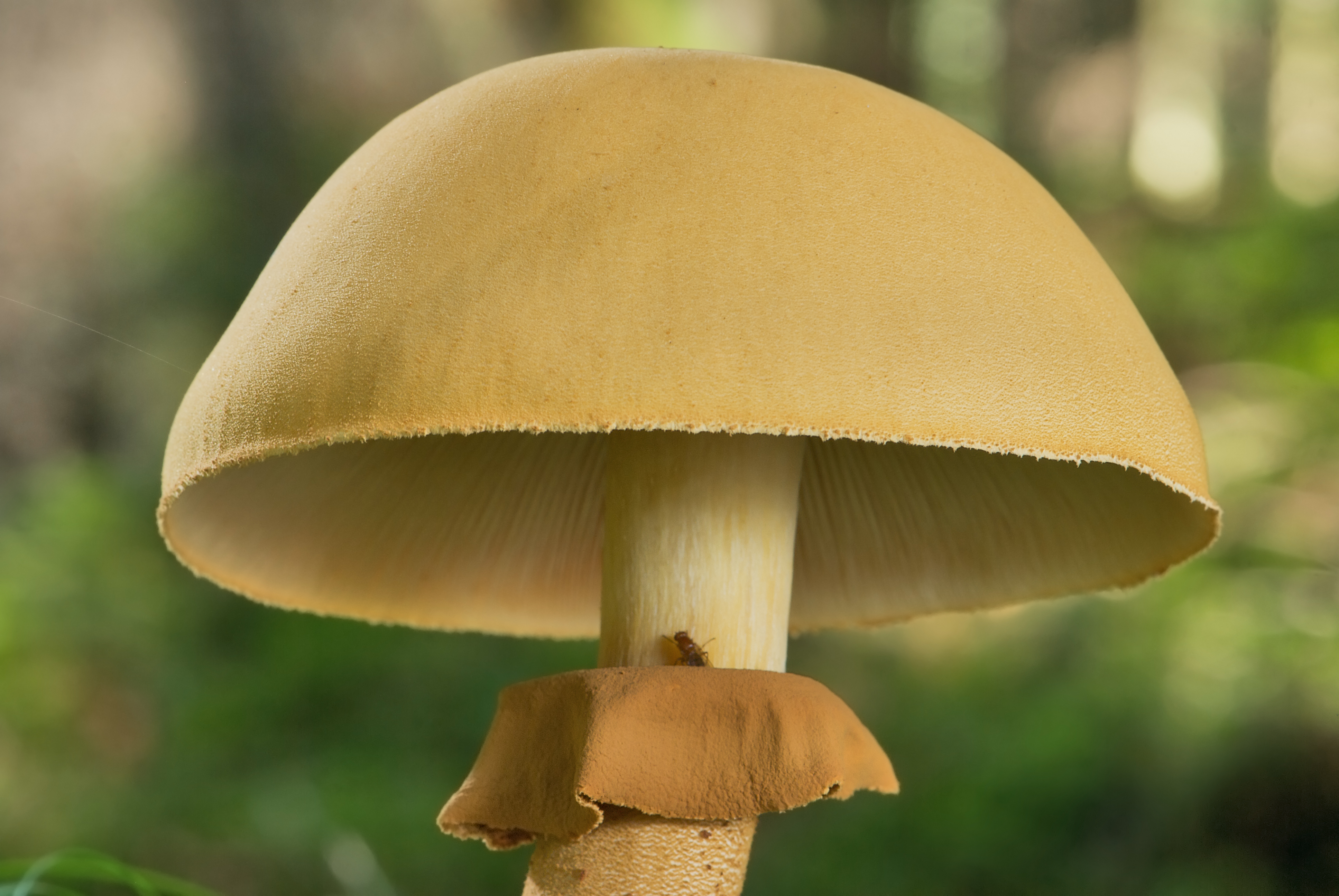 The golden bootleg or golden cap mushroom (Phaeolepiota aurea) can be found throughout Eurasia and North America. In Europe it is considered a rare species. This picture is part of a five image series showcasing the transformation of the fruit body's cap during growth. The cap of the specimen measures about 147 mm in diameter.